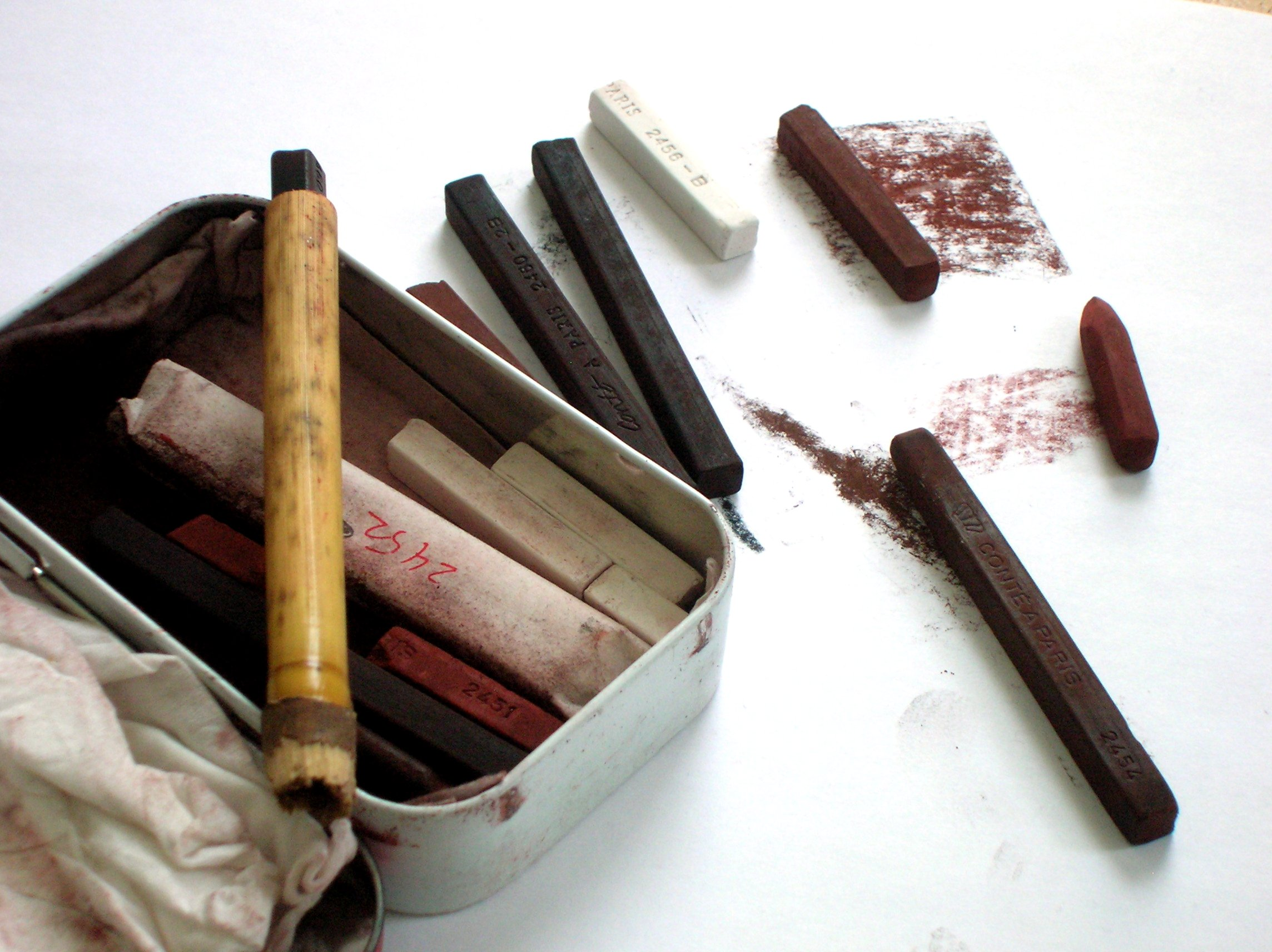 Conté crayon assortment.